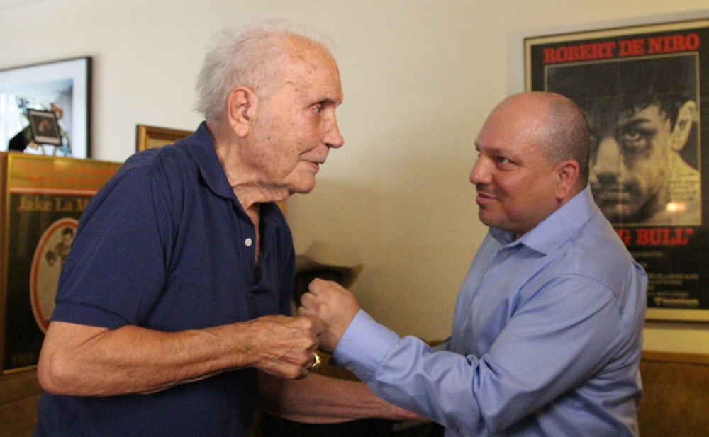 Lorenzo Tartamella and the Raging Bull Jake LaMotta.